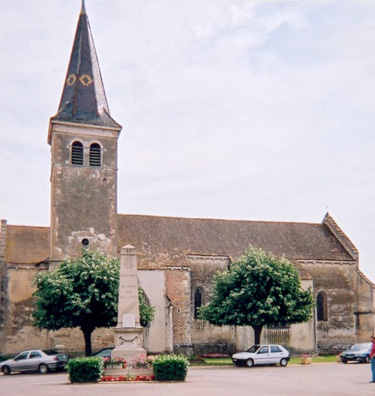 Saint John the Baptist church of Saint-Jean-sur-Veyle